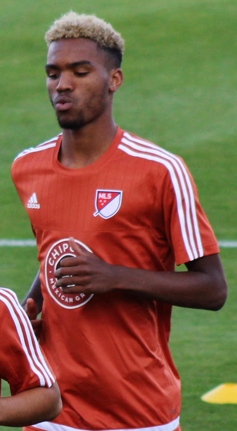 Bradford Jamieson IV